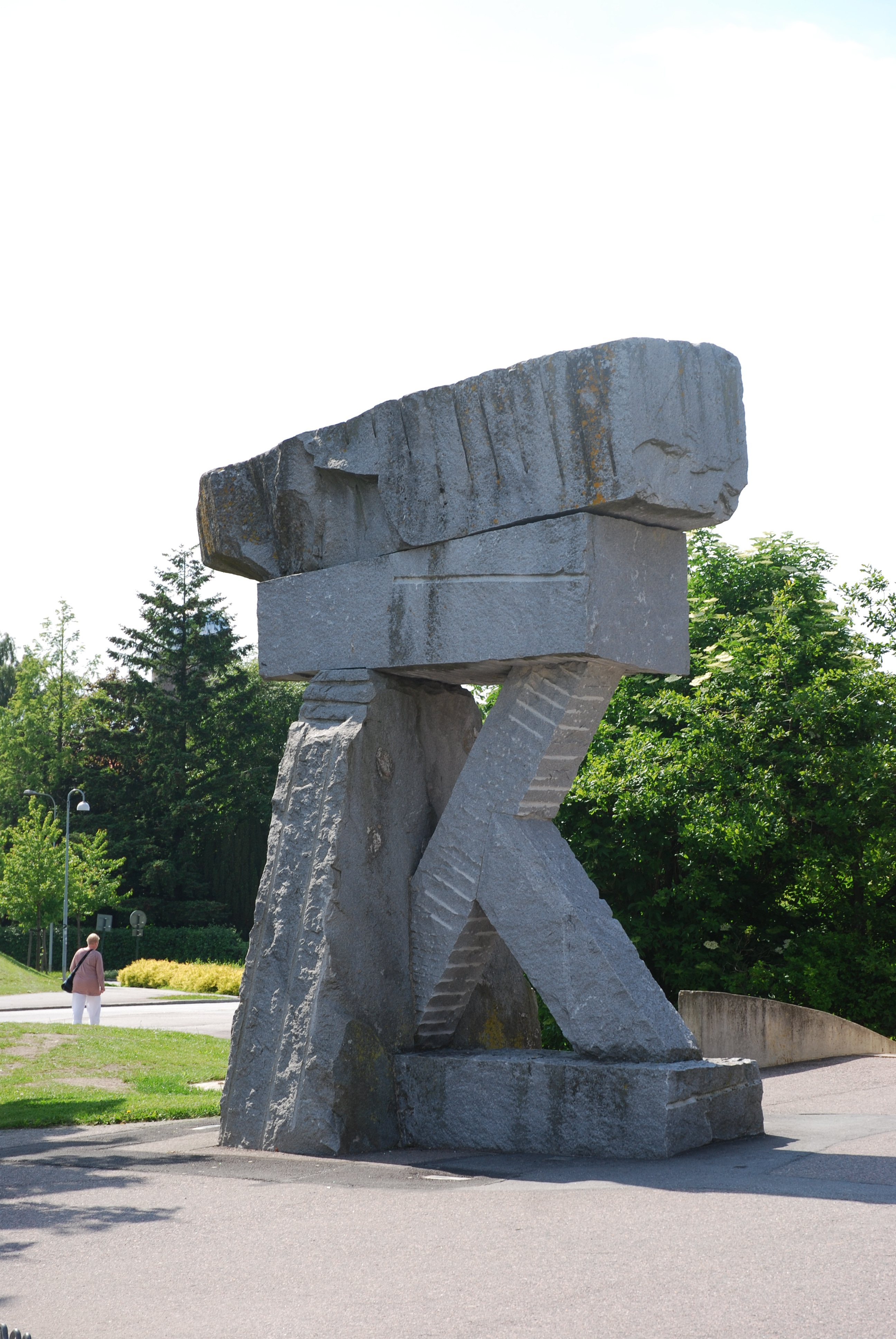 Jörgen Haugen Sörensen´s Vikten (The Weight), 1994, granite, Lund Technical University, Lund, Sweden